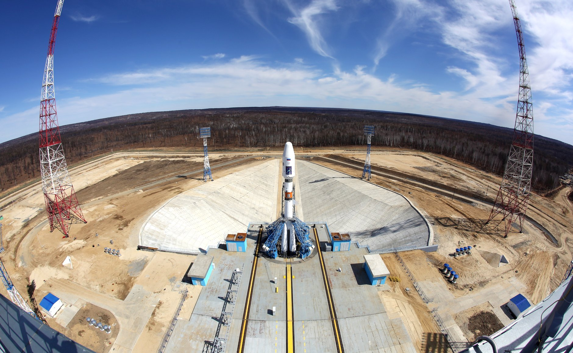 Soyuz-2.1a launch vehicle carrying three Russian spacecraft Mikhail Lomonosov, Aist-2D, and SamSat-218 at the launch pad at Vostochny Space Launch Centre. Photo: RIA Novosti